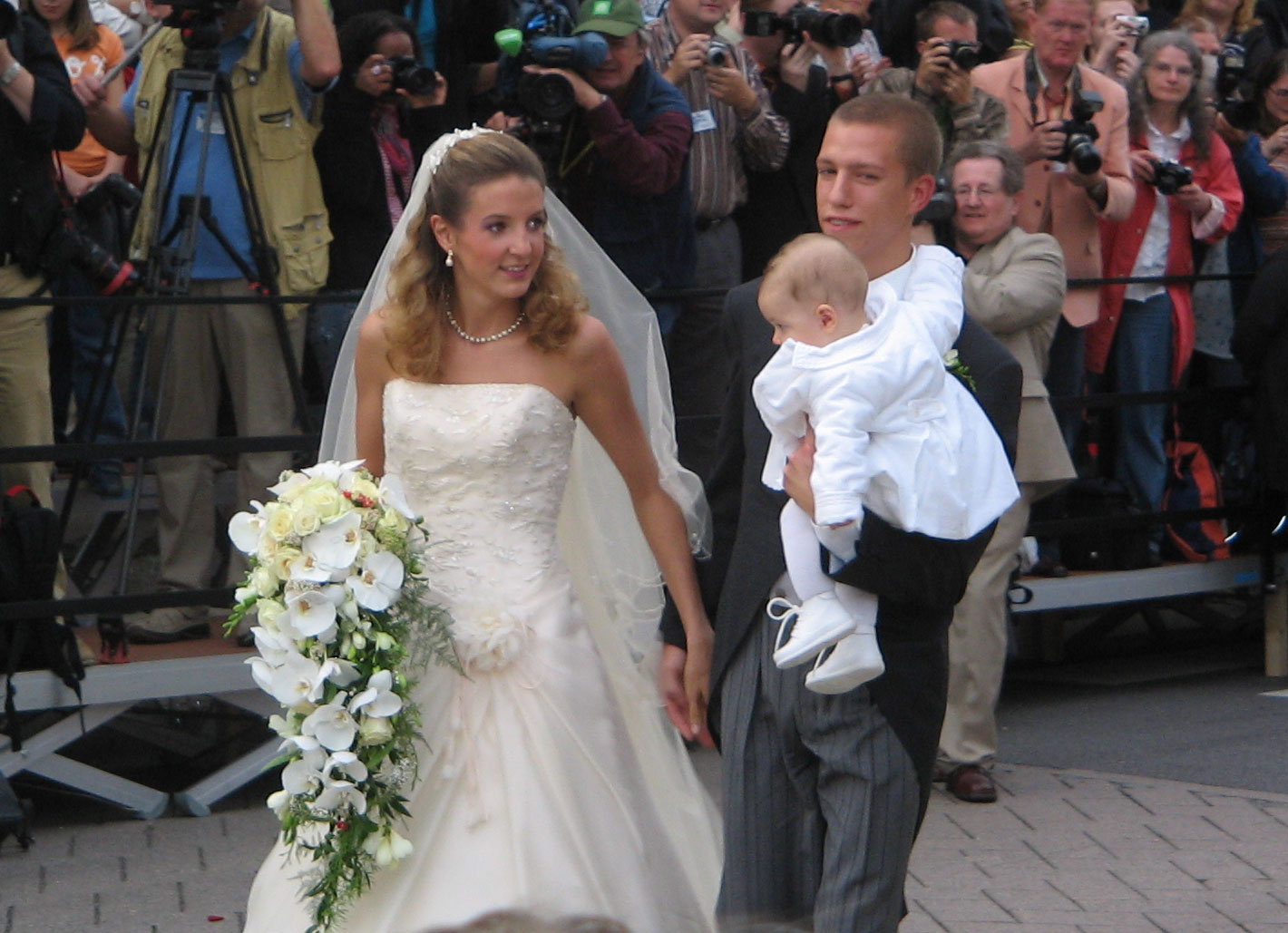 Prince Louis, Tessy Antony and their son Gabriel after their wedding in Gilsdorf.